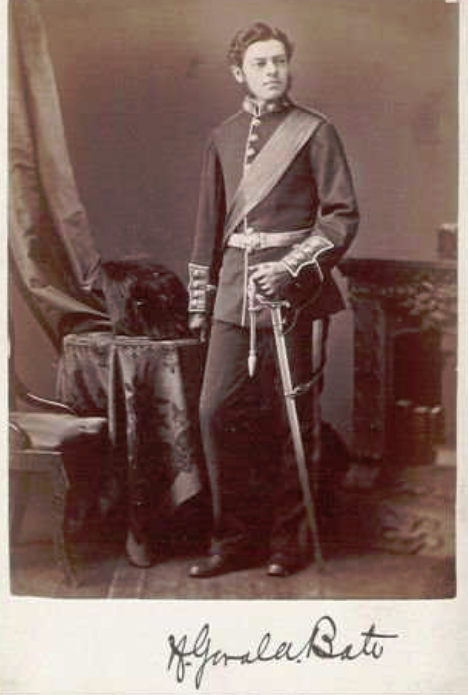 A pre-1885 photo of Hermine Gerald Bate (later Major, in the Canadian Army)